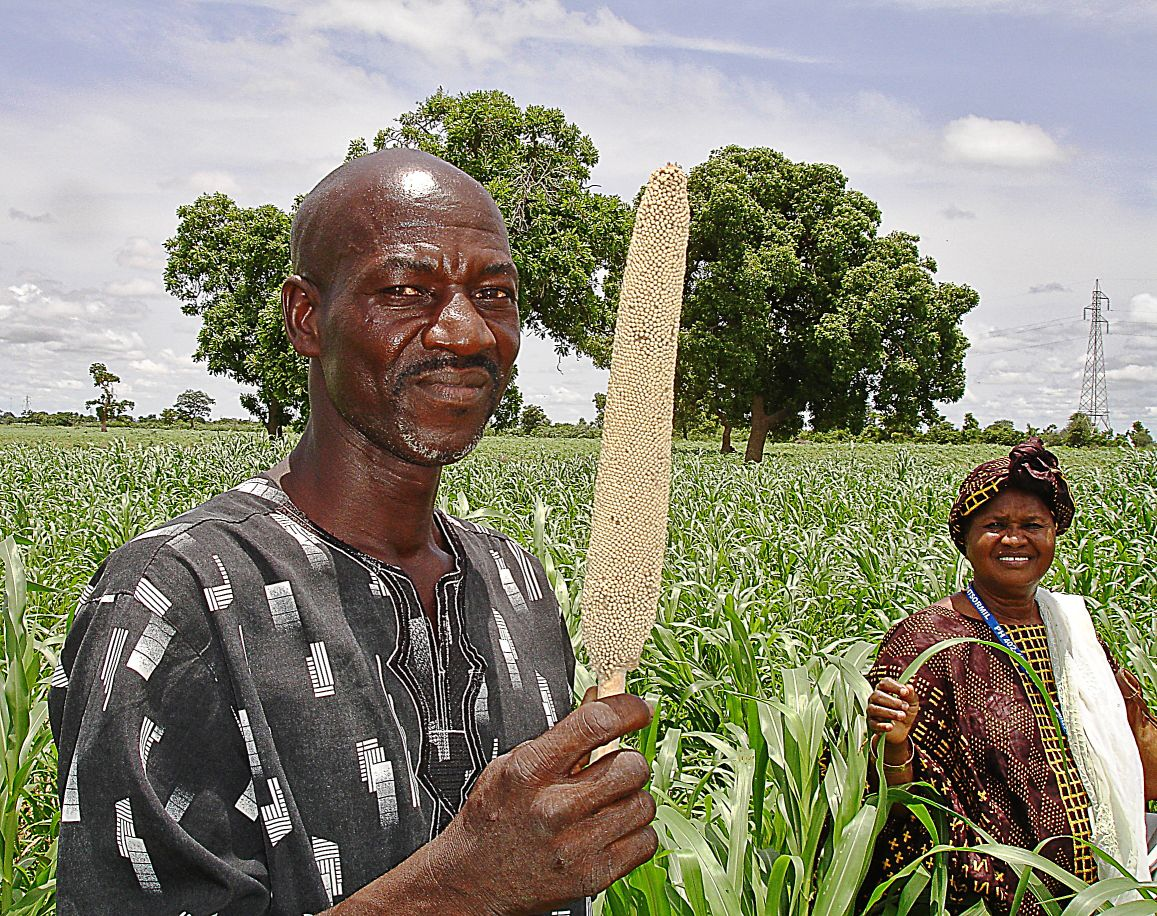 Farmer from Cooperative Yereta-Ton, Tingoni, Mali. Cooperative sells high quality, clean millet grain to the food processor (pictured rear) from Bamako for the production of millet-based foods.